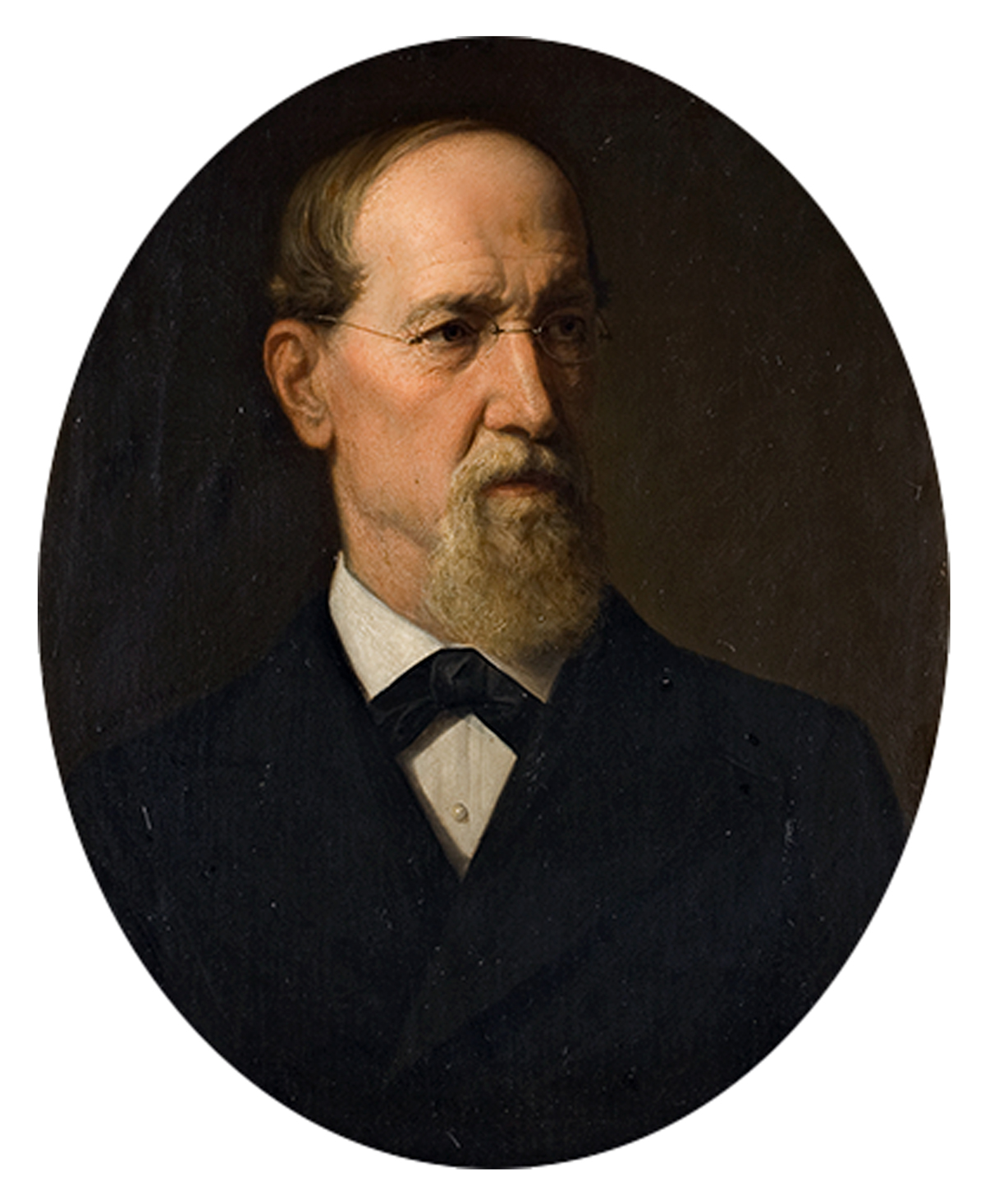 Depicted person: Matija Ban – Serbian writer